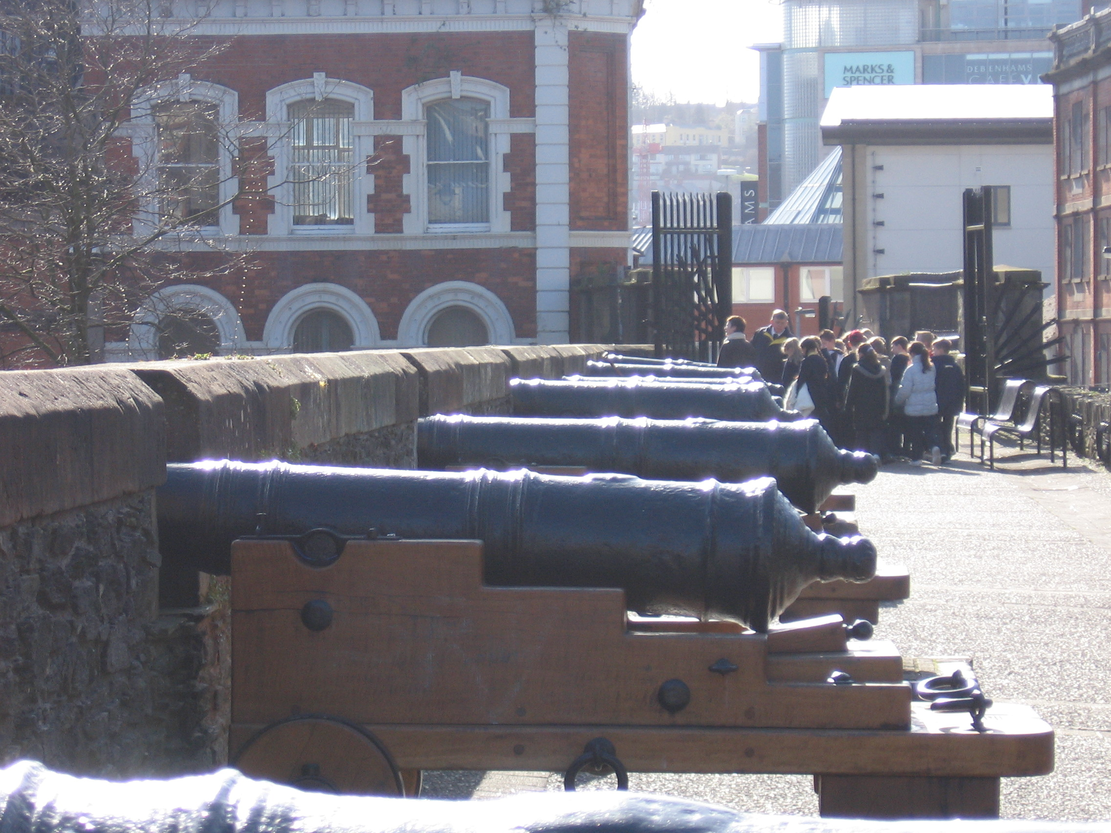 Siege canon on Derry City walls.